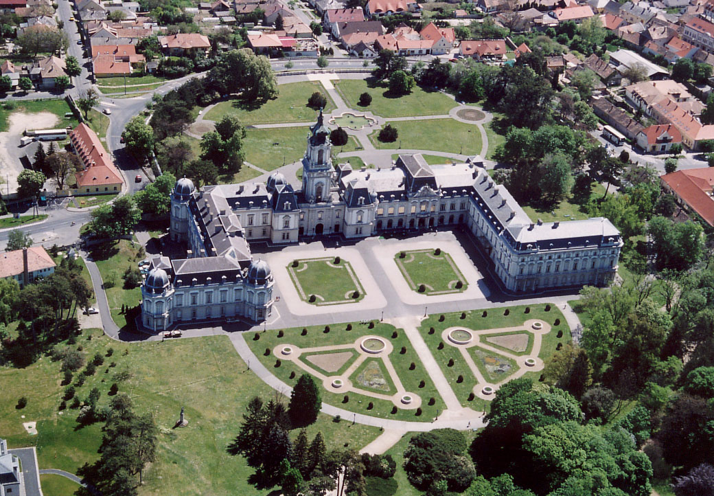 Festetics Castle - Keszthely - Hungary - Europe